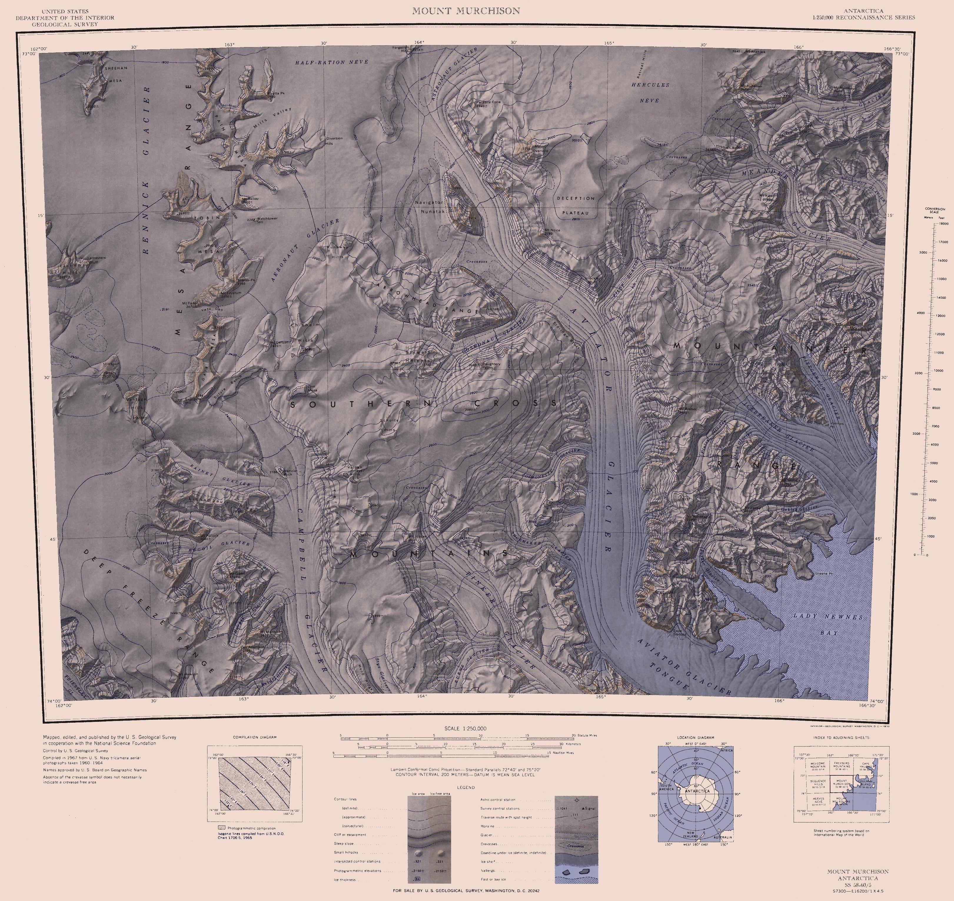 1:250,000-scale topographic reconnaissance map of the Southern Cross Mountains area from 162°-166°30'E to 73°-74°S in Antarctica, including the Mountaineer Range with Mount Murchison, and Aviator and Campbell Glaciers. Mapped, edited and published by the U.S. Geological Survey in cooperation with the National Science Foundation.